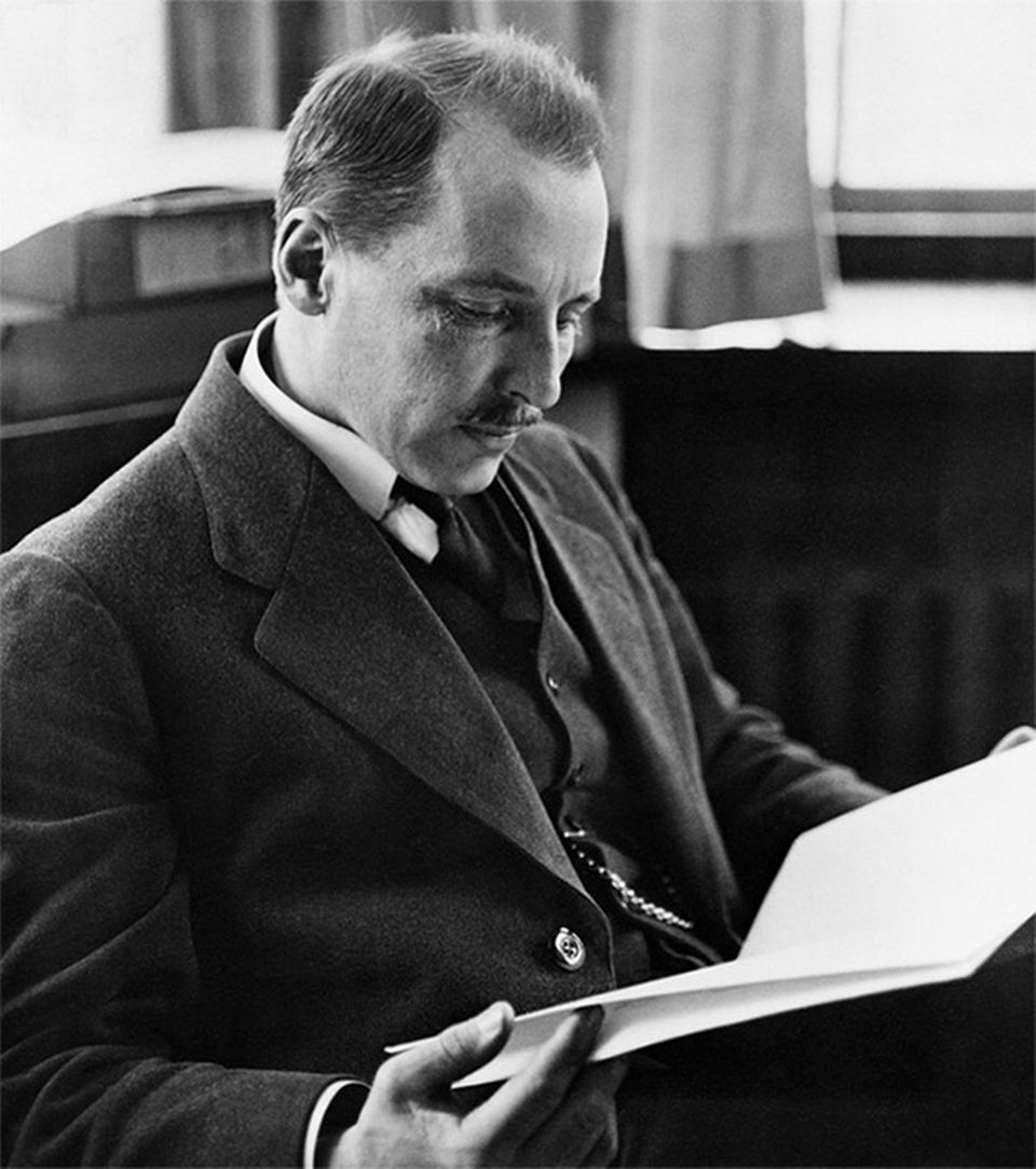 Photograph of the Finnish archaeologist and explorer Sakari Pälsi (1882–1965) at work.